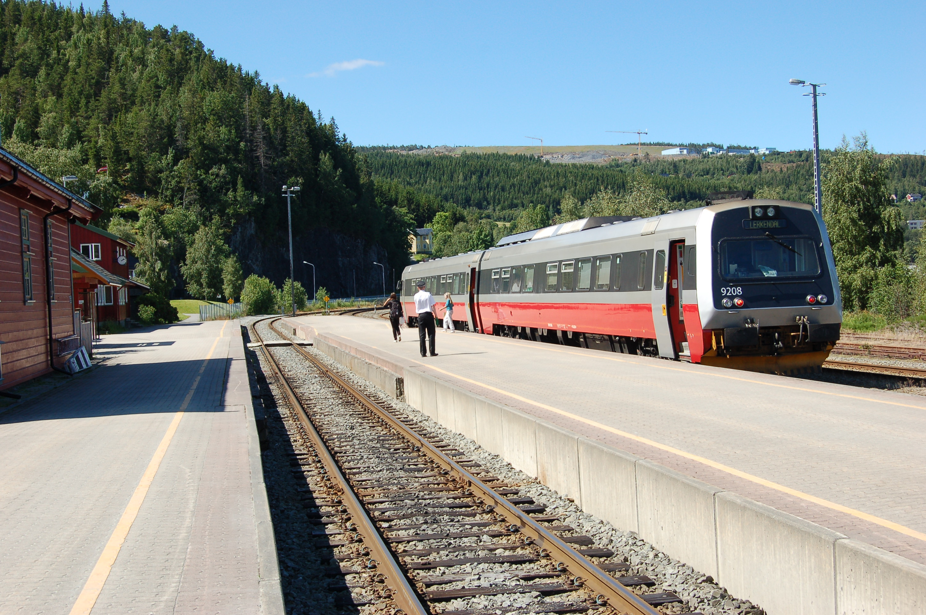 Hommelvik Station on Nordlandsbanen, in Malvik, Norway, with a BM92 of Norges Statsbaner. Hommelvik stasjon på Nordlandsbanen, i Malvik, Norge, med en type 92 fra Norges Statsbaner.